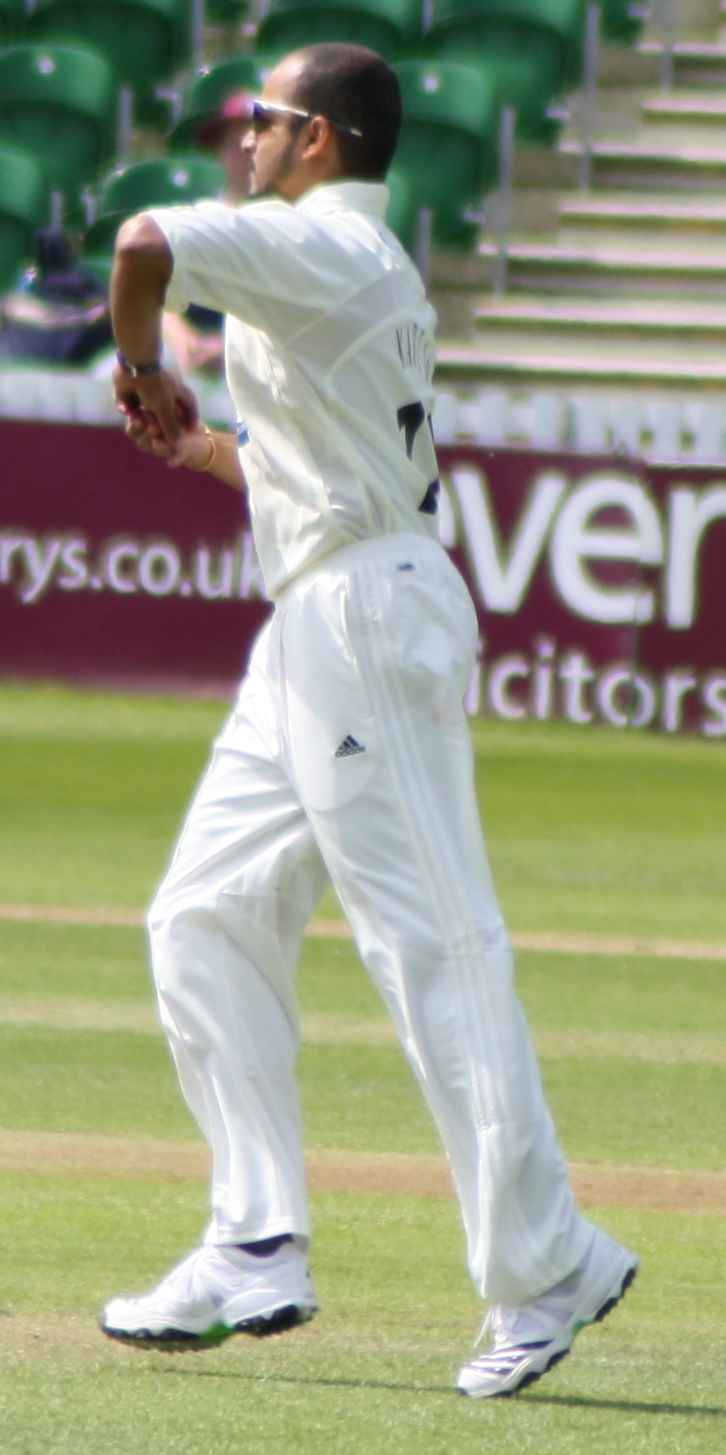 Murali Kartik bowling for Somerset during a County Championship match against Yorkshire at the County Ground, Taunton